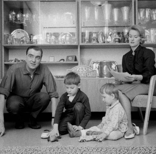 Photograph of the Finnish rally car driver Pauli Toivonen (1929–2005) with his family.